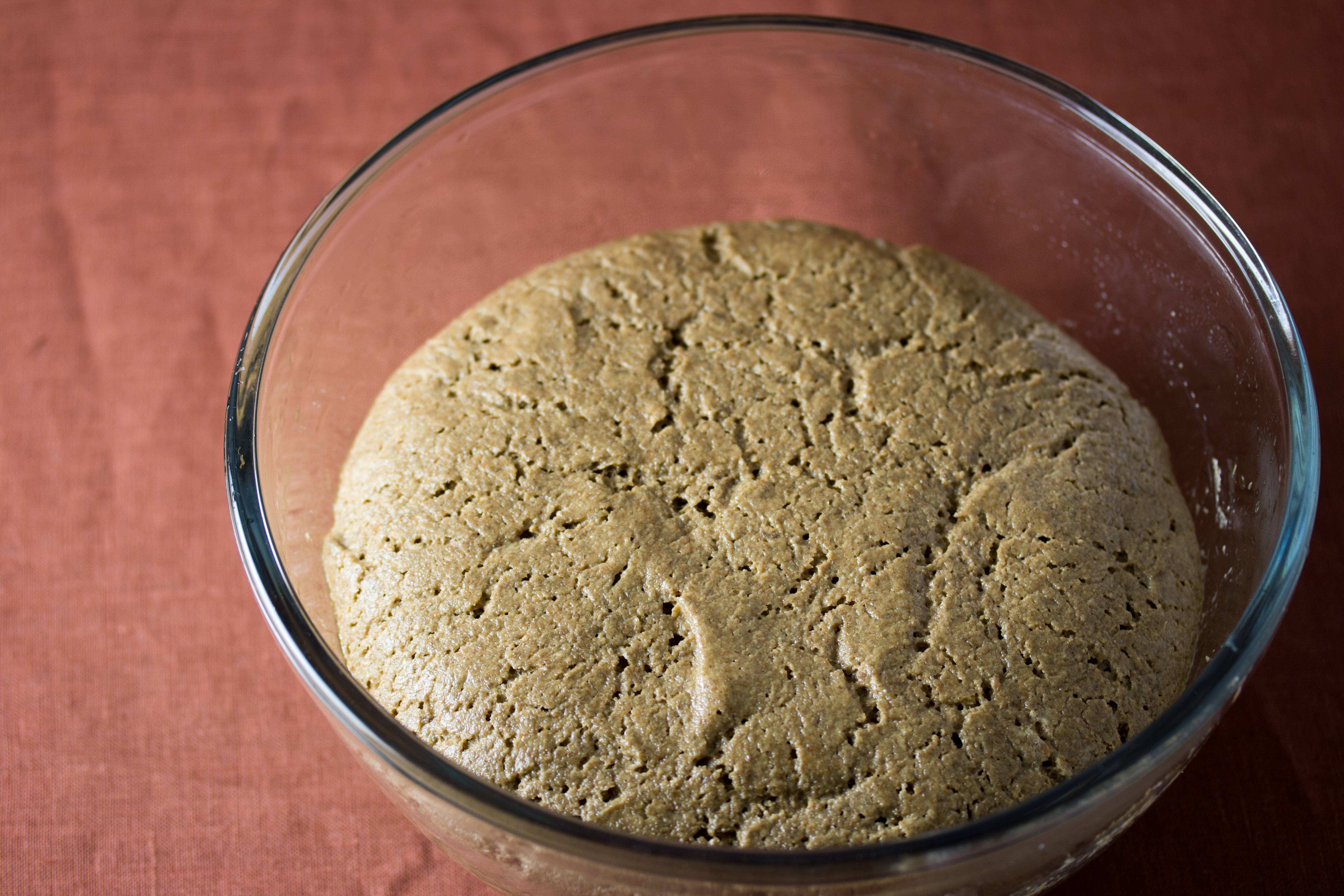 100% Rye Bread Dough